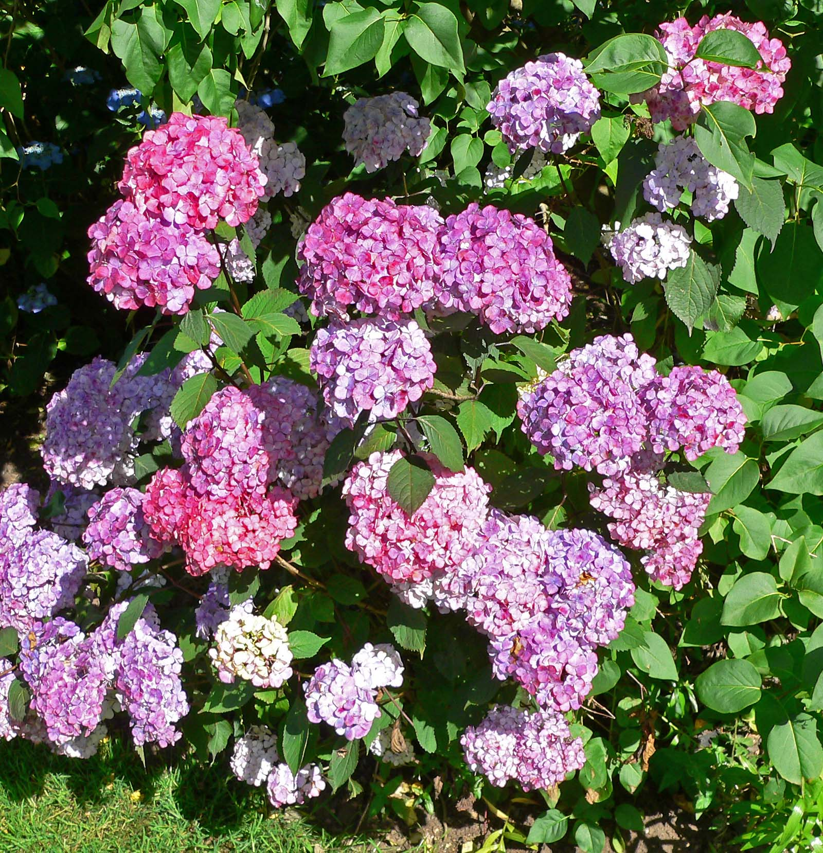 Photo of Hydrangea serrata 'Preziosa' at the VanDusen Botanical Garden in Vancouver